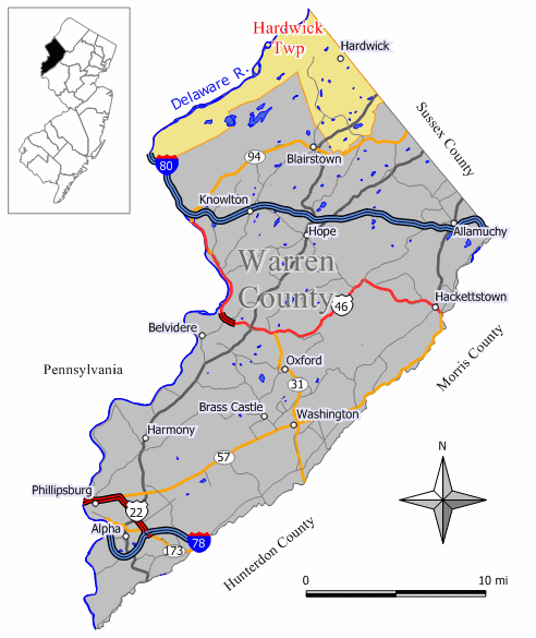 Original work by Jim Irwin, December 2005. Map of Hardwick Township in Warren County, New Jersey.